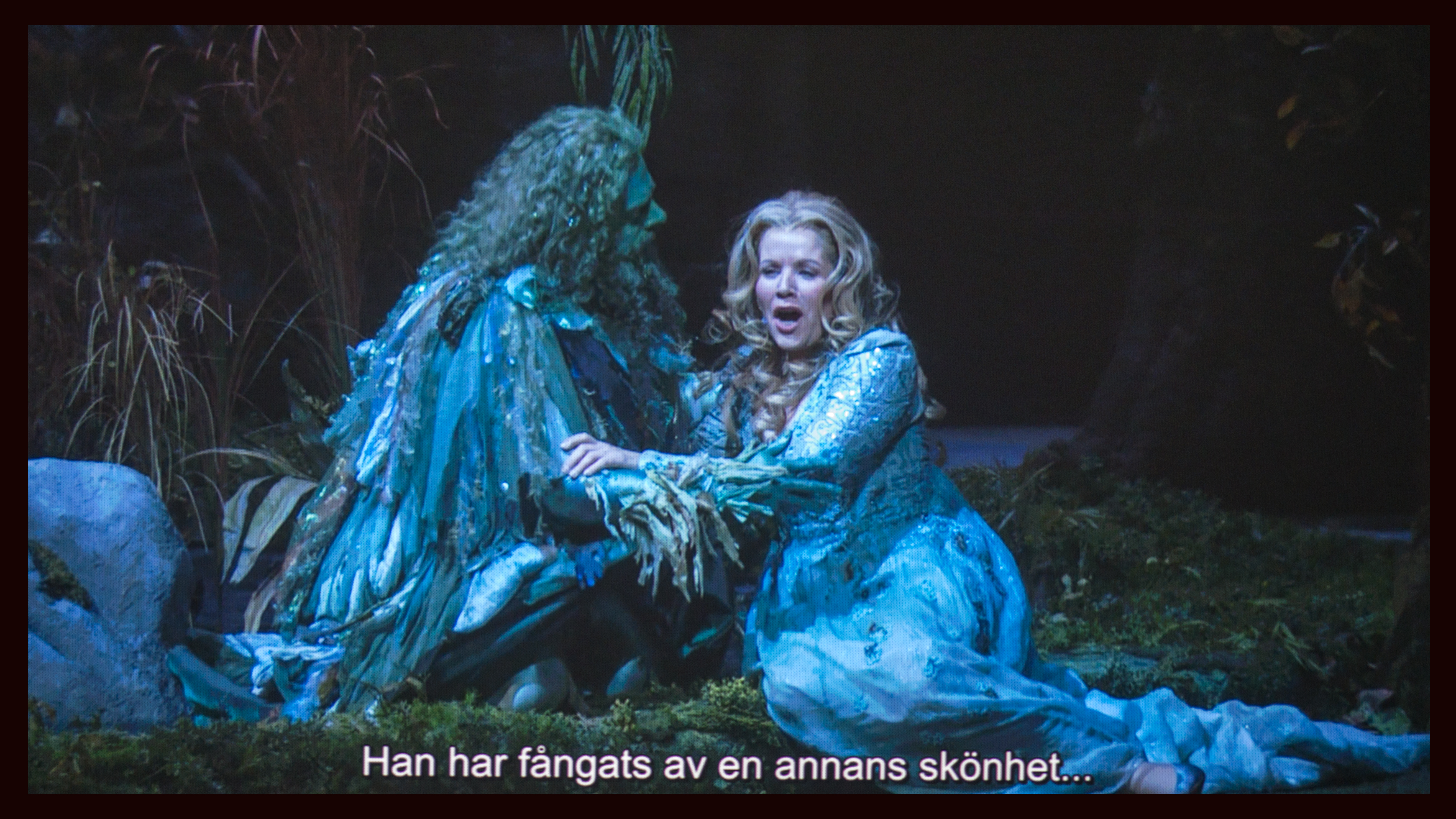 Rusalka at the Metropolitan Opera in New York